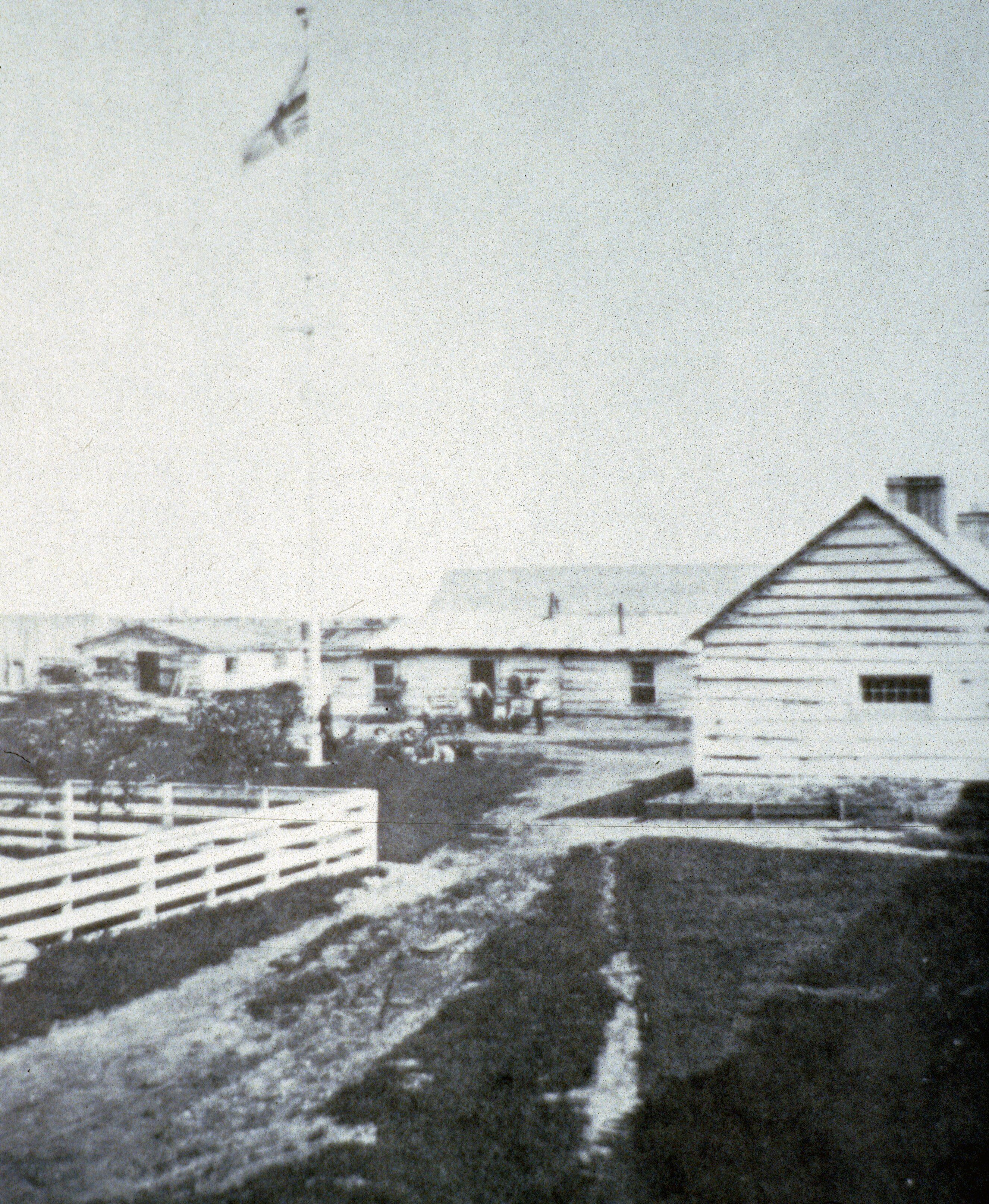 The interior of Fort Saskatchewan in approximately 1884. This picture was taken by the bastion, and faces away from the bastion and towards the other side of the fort.